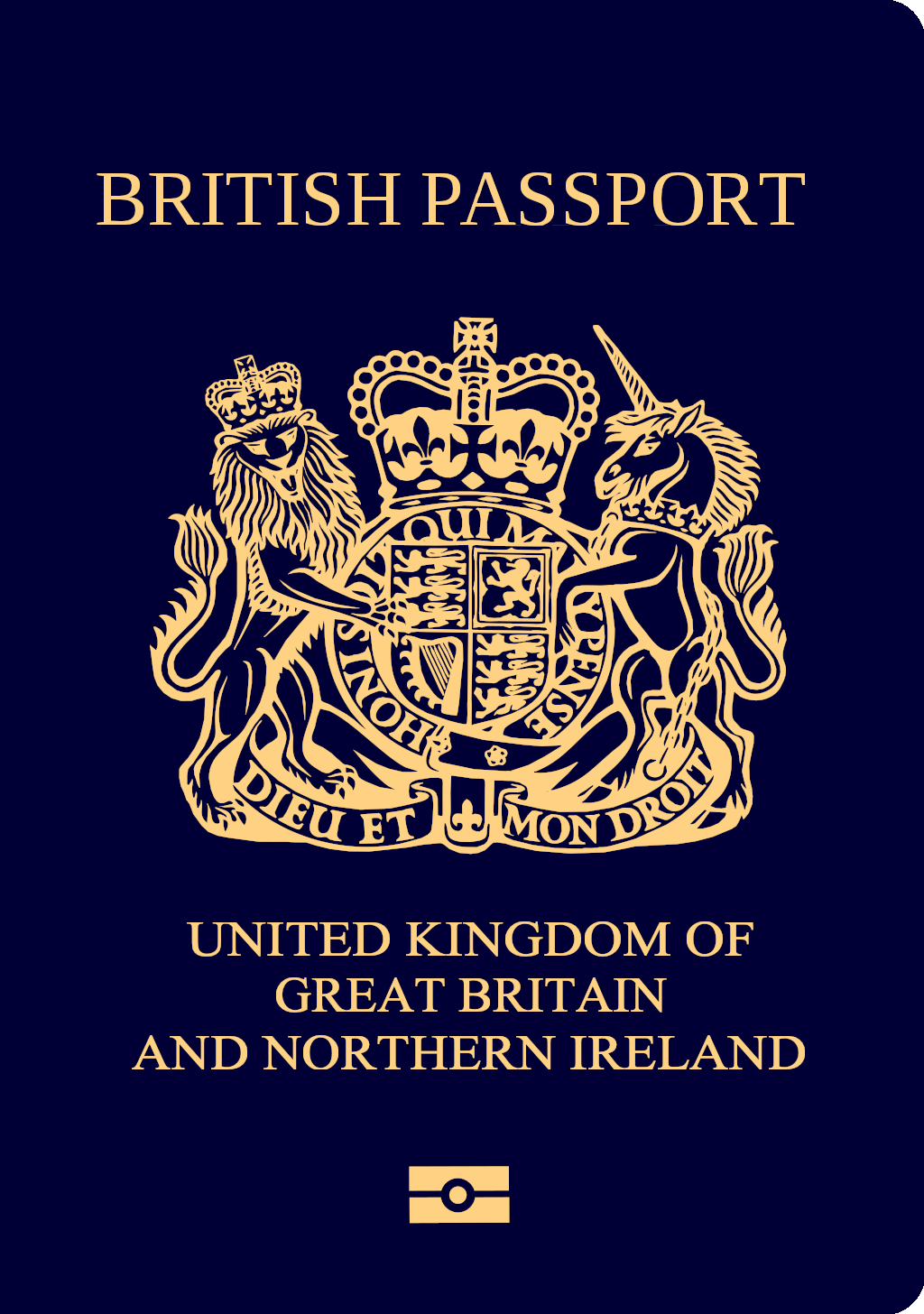 A mock-up of the post-Brexit British passport based on the one held by Boris Johnson, Prime Minister of the United Kingdom, in this photo published on Twitter ( 'UNITED KINGDOM OF GREAT BRITAIN AND NORTHERN IRELAND' obtained from the SVG images uploaded by Geordie Bosanko (File:British_Passport.svg) 'BRITISH PASSPORT' and crest obtained from the SVG image uploaded by Geordie Bosanko (File:St._Helena_and_Dep_Passport.svg)